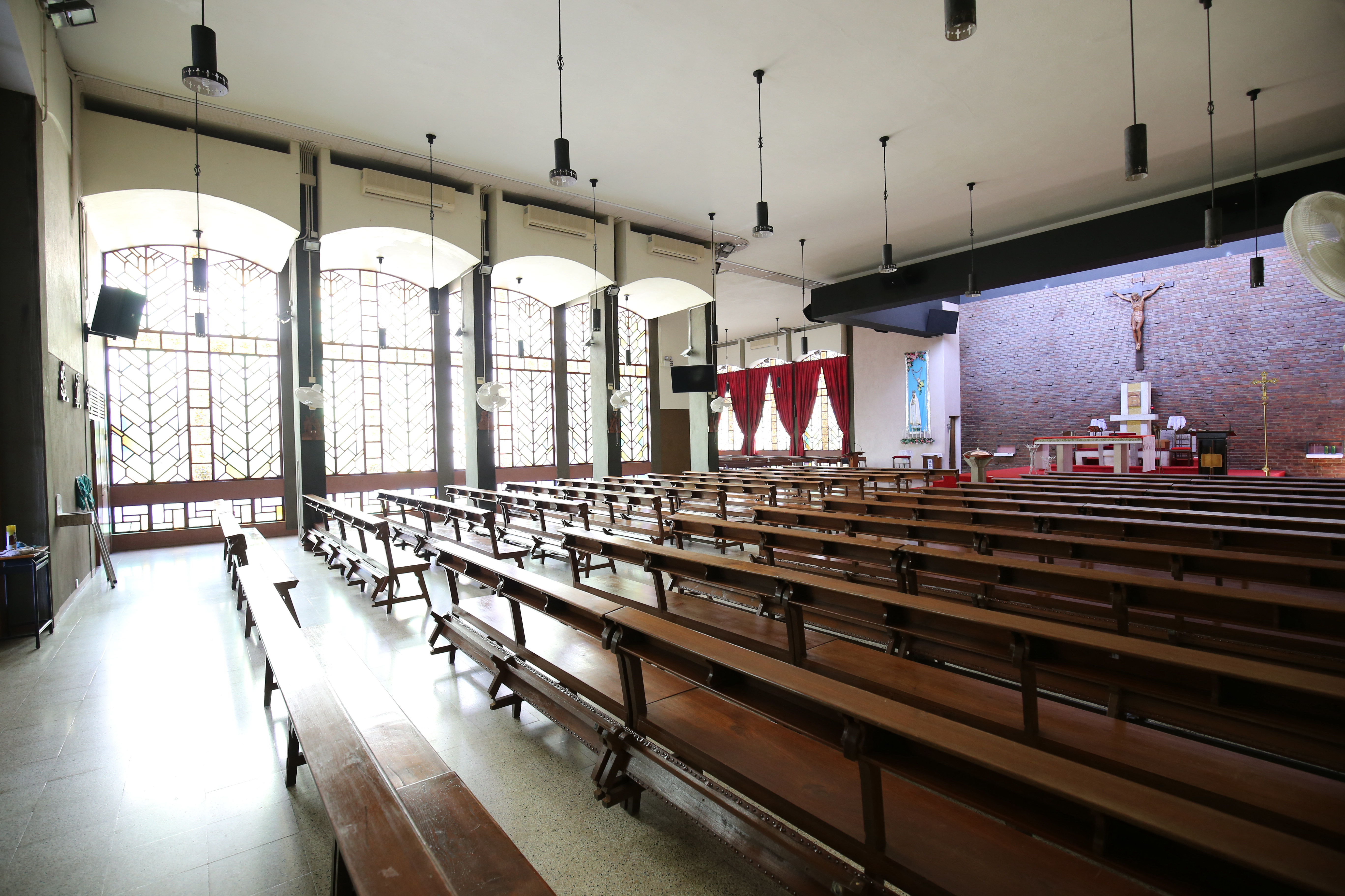 Fatima Church Macau